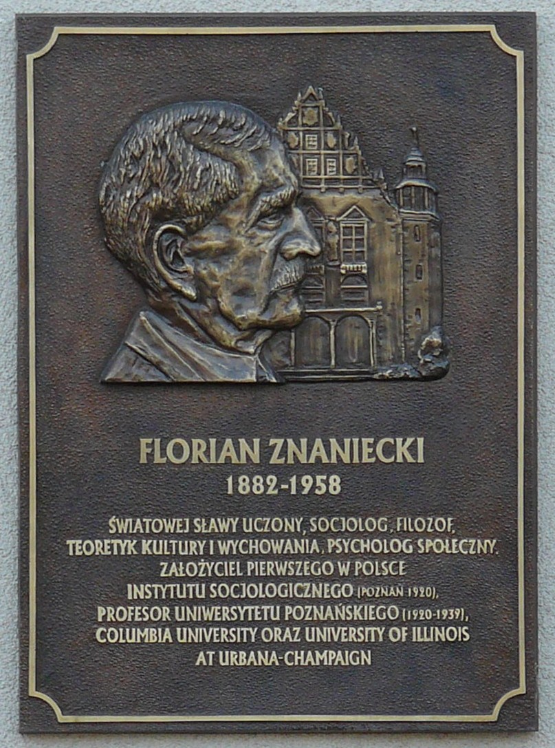 Florian Znaniecki Plaque, Poznan, UAM.